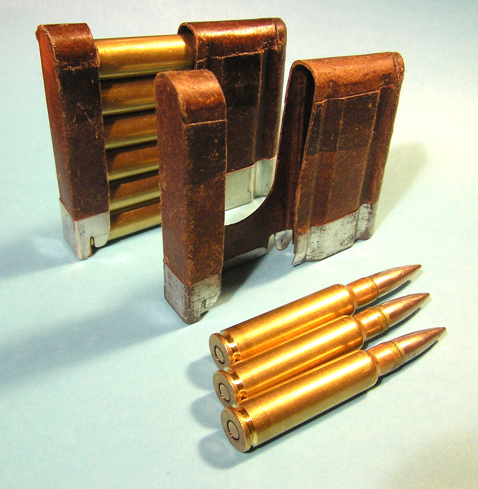 K31 charged and empty stripper clips with 7.5mm x 55 rounds.